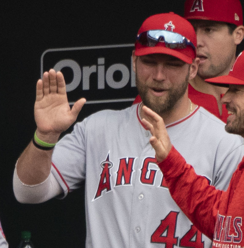 Albert Pujols of the Los Angeles Angels returns to the dugout during a 2019 game at Camden Yards in Baltimore.